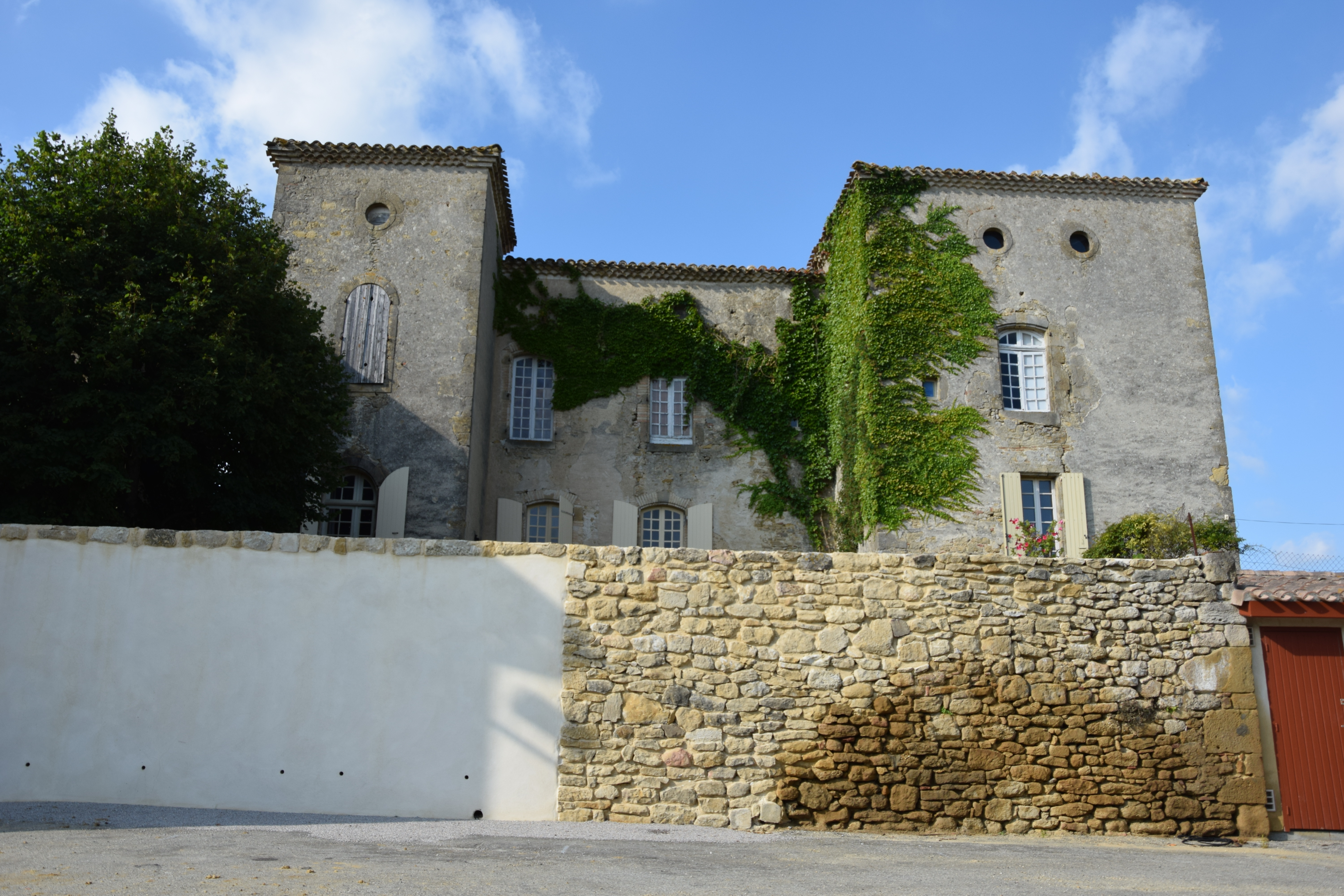 Castle of Molleville